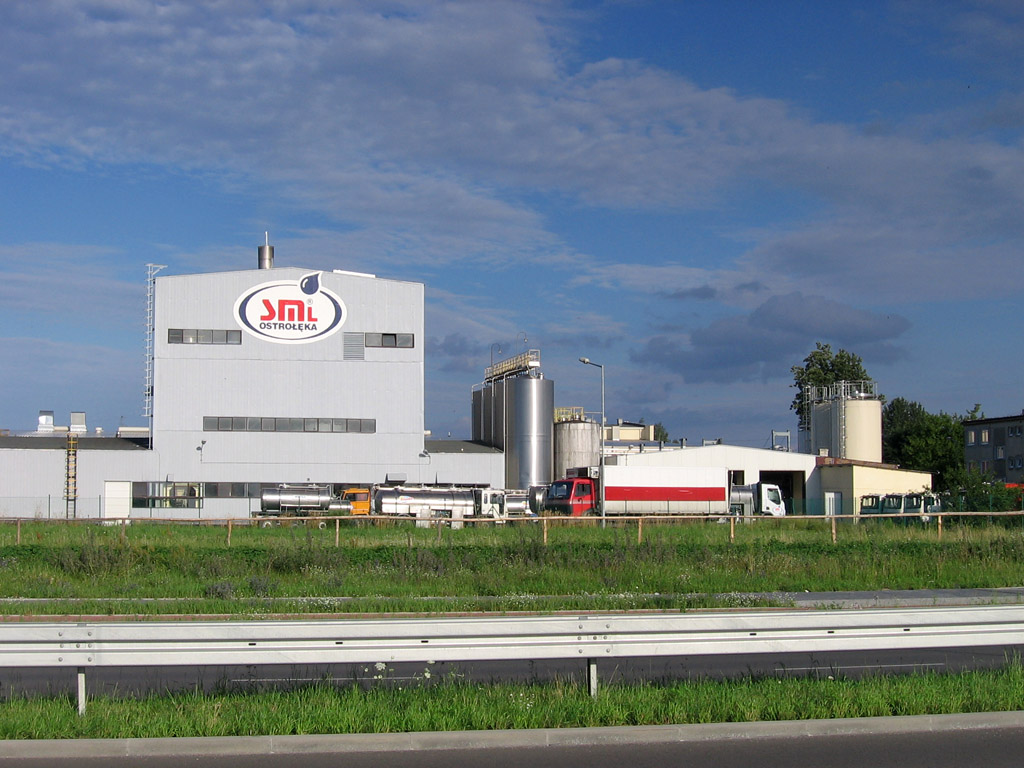 City of Ostrołęka (Poland), a building of creamery (Dairy Cooperative).